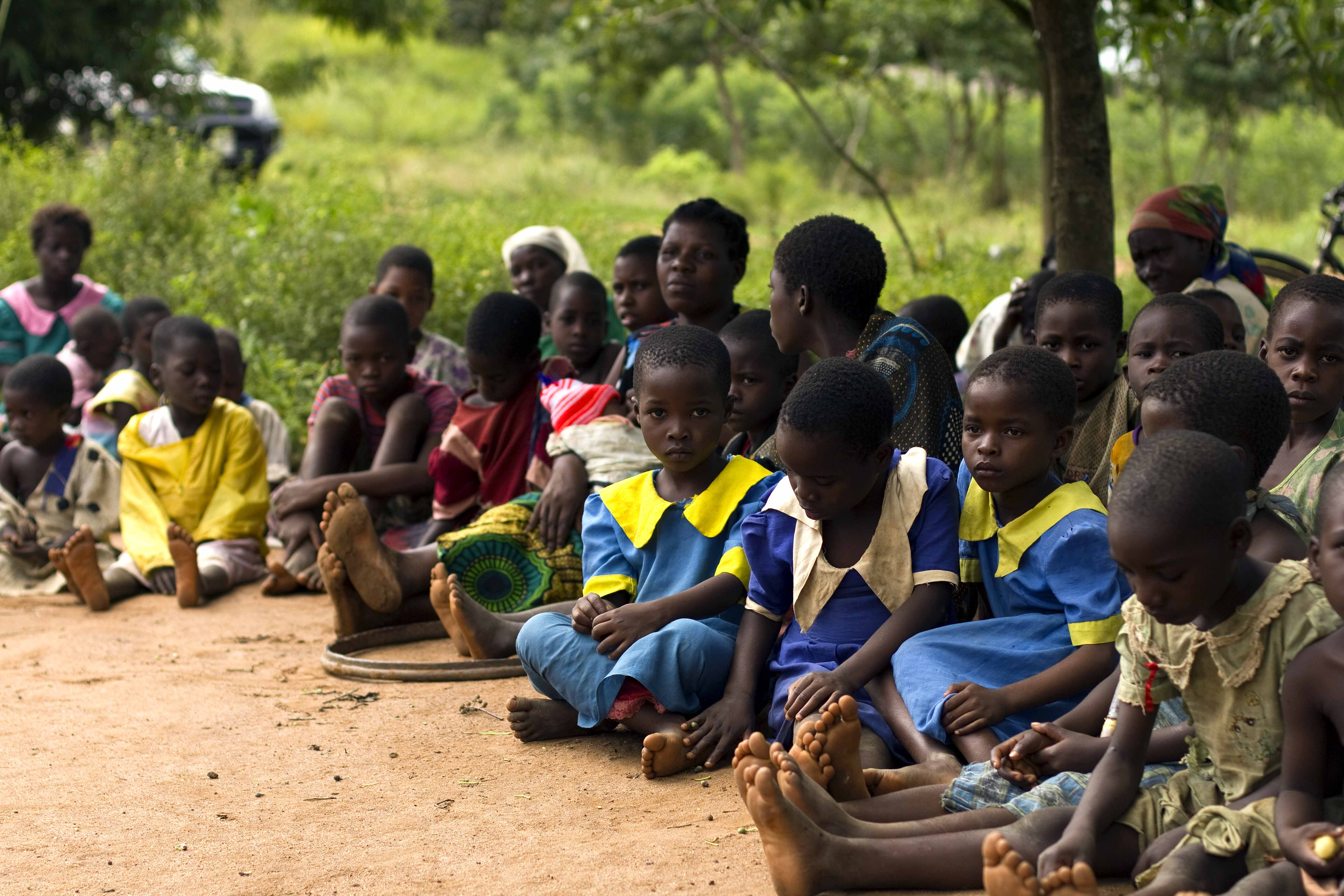 School children attend a farmer meeting in Nalifu village, Mulanje, Malawi.